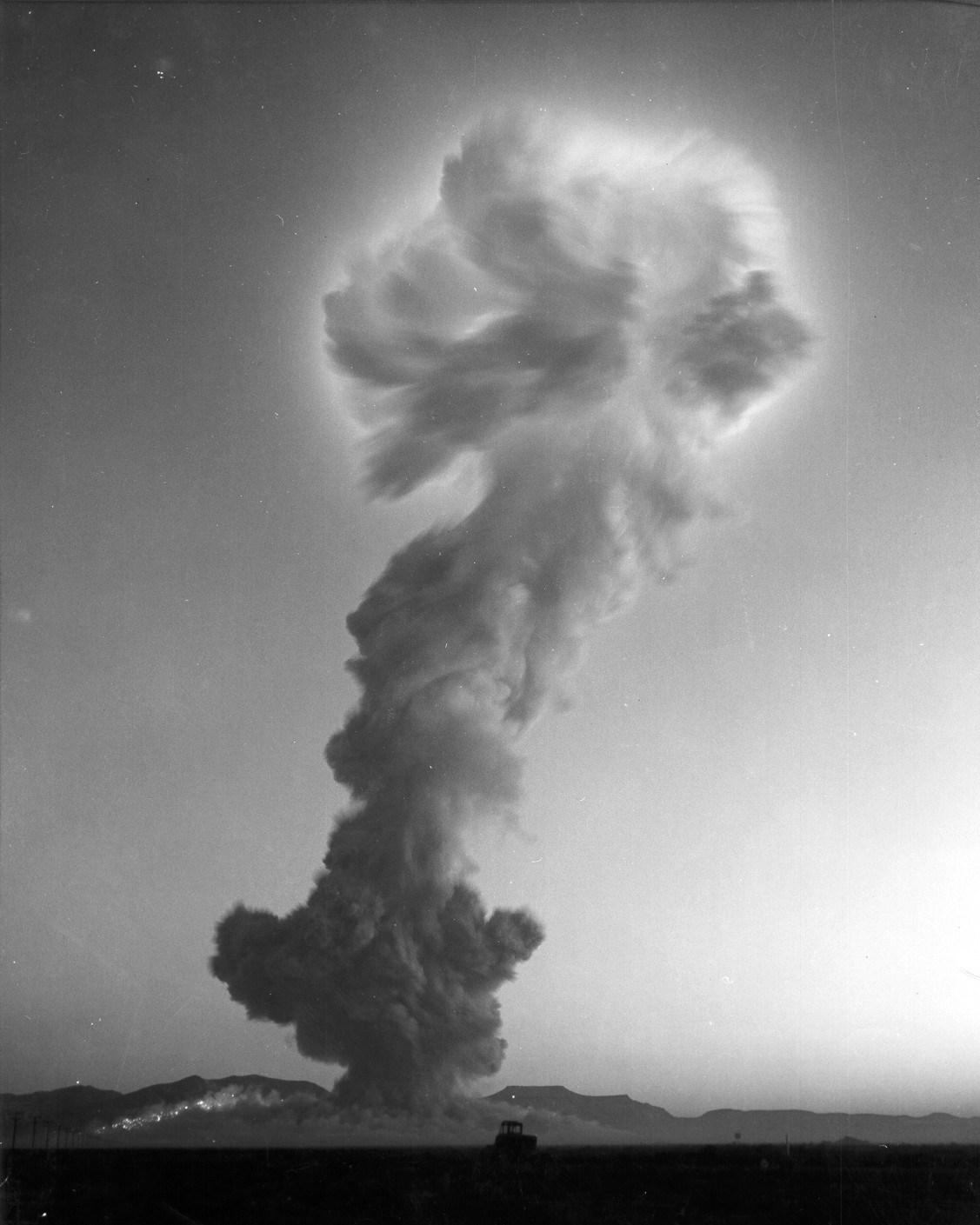 Brush fires burn on hillsides to the left of SMOKY, the 15th full-scale atomic detonation of Operation Plumbbob. The cloud is shown as it begins to separate from the stem